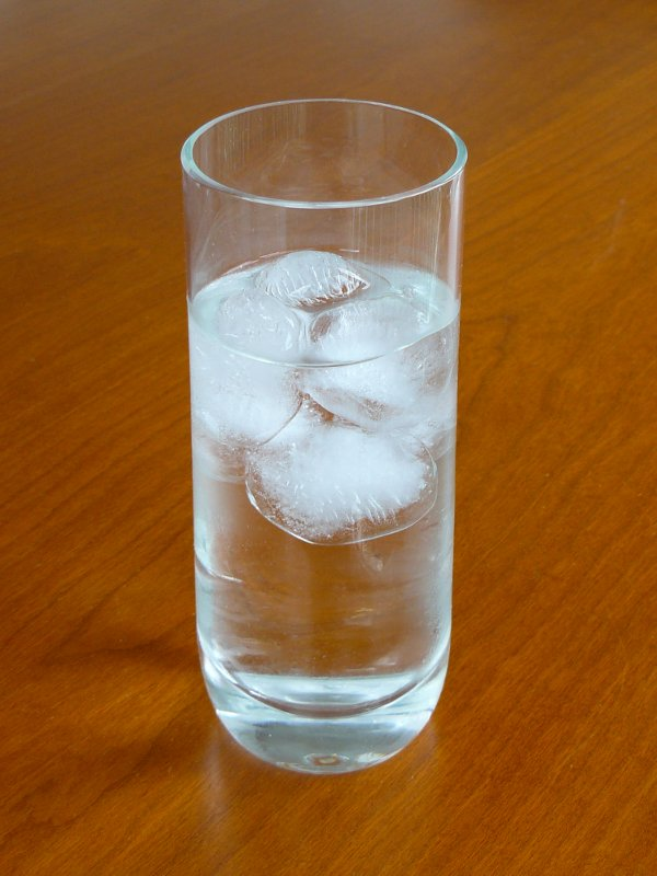 Two phases (water and ice) in different states of aggregation (liquid and solid).